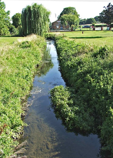 Pymme's Brook looking towards Osidge Lane. Pymme's Brook flows through Oakhill Park then down Brookside, before passing under Osidge Lane then on through Brunswick Park and Arnos Park.